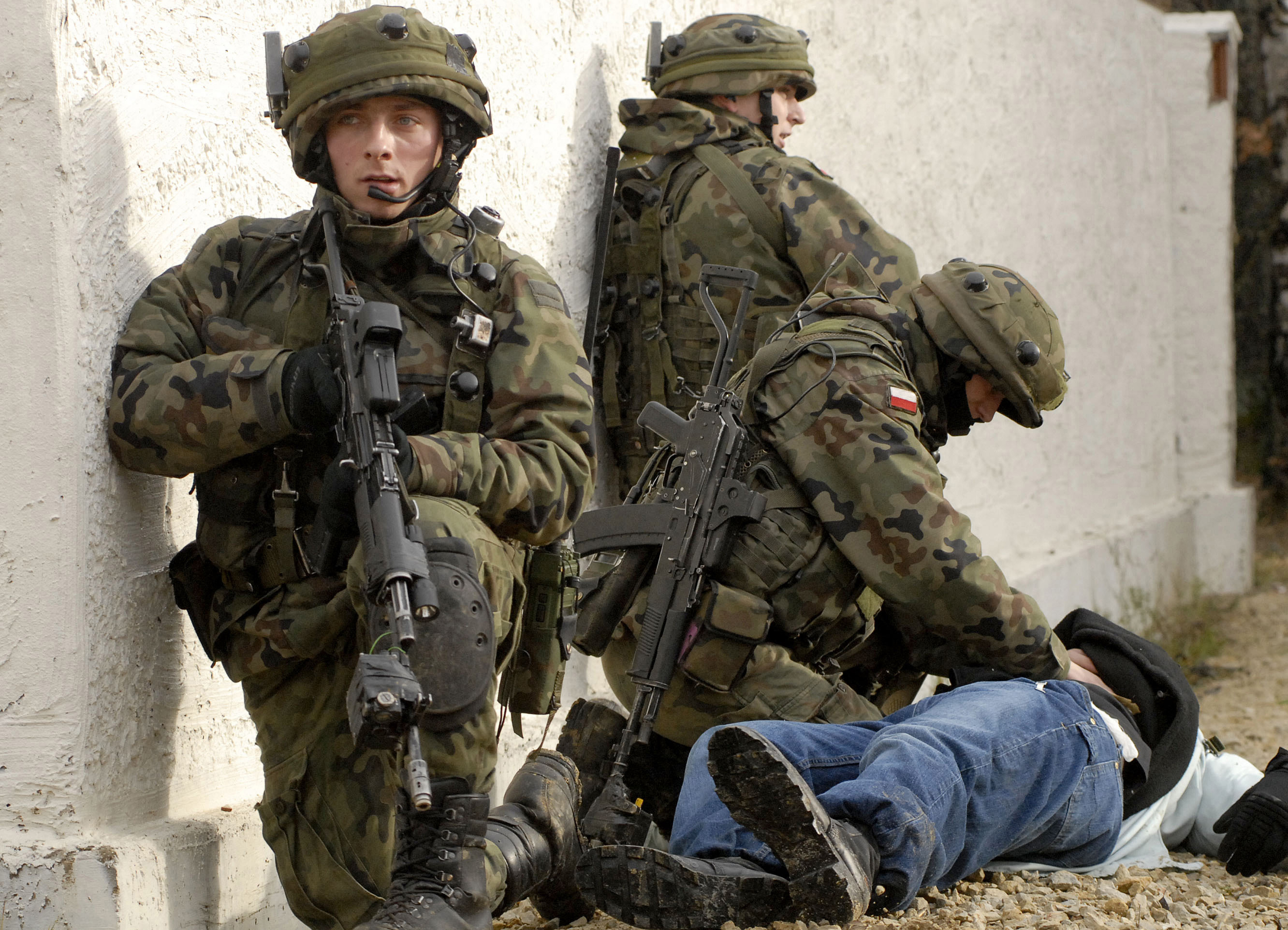 Polish army soldiers of the 18th Bielsko Airborne Assault Battalion treat a simulated wounded civilian during a training exercise at the Joint Multinational Readiness Center (JMRC) in Hohenfels, Germany, Dec. 14, 2006. Senior polish military leaders visited approximately 500 of their soldiers who are training at the JMRC in preparation for their country's first-ever deployment to Afghanistan.